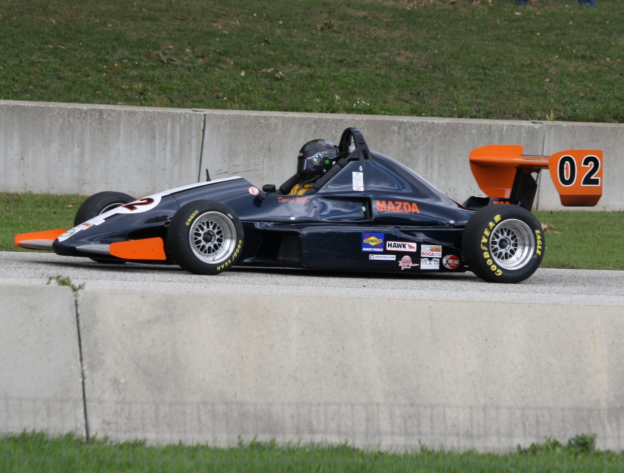 The Formula Mazda winner Darryl Willis at the 2010 SCCA National Championship Runoffs at Road America.